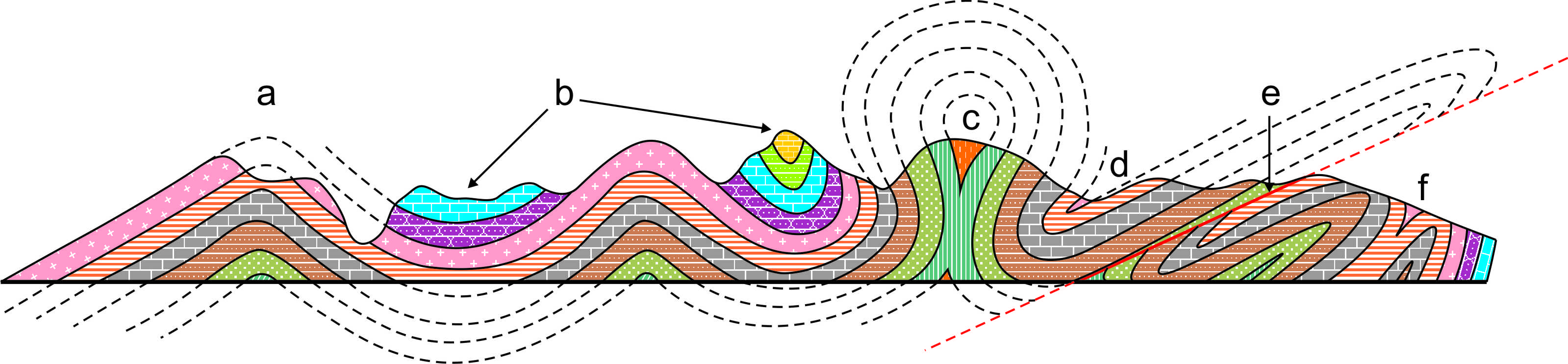 Folds type